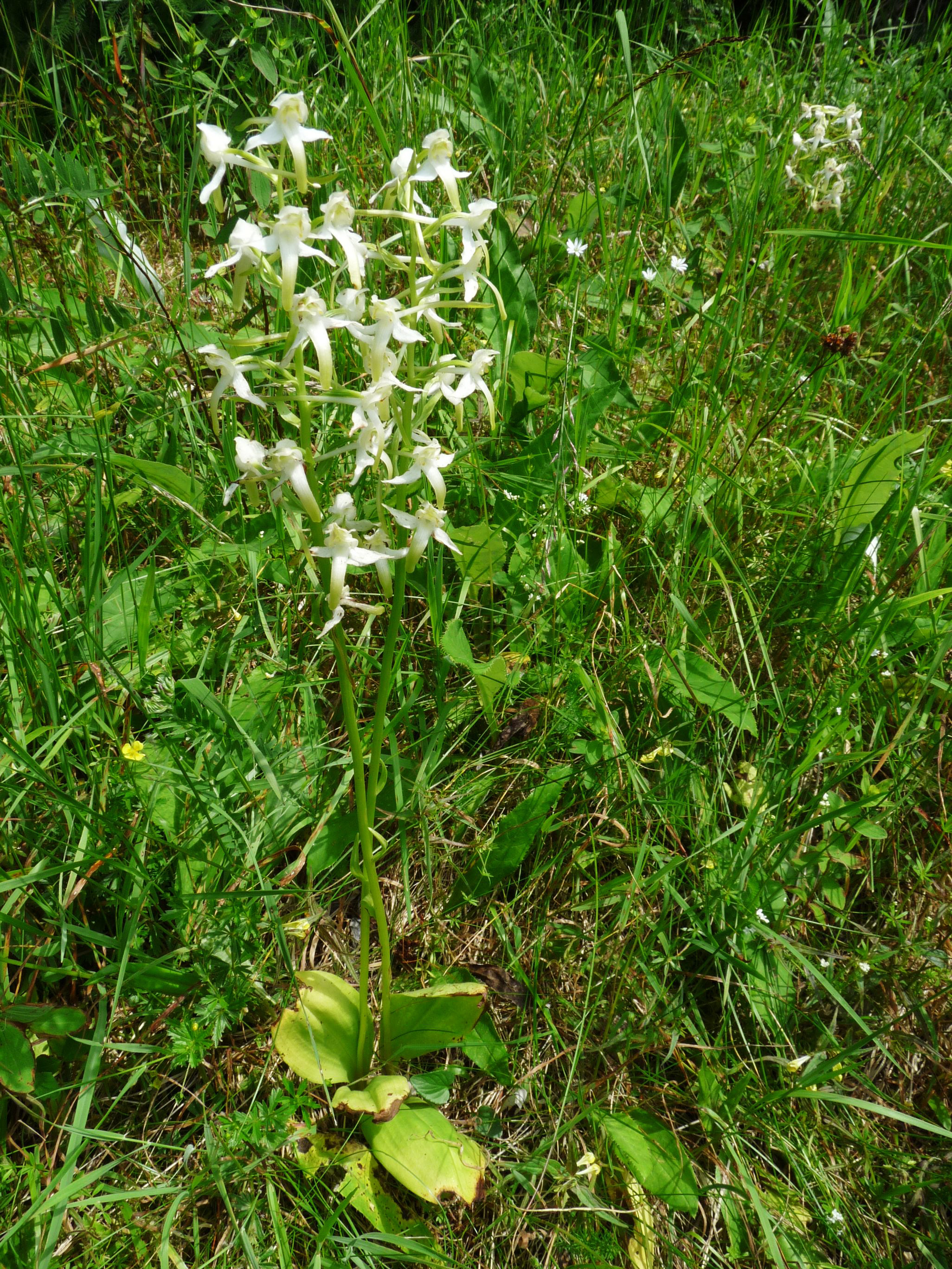 Pod Farským lesem nature reserve near the village of Křišťanov, Prachatice District, Czech Republic - Platanthera bifolia, one of Czech orchids.